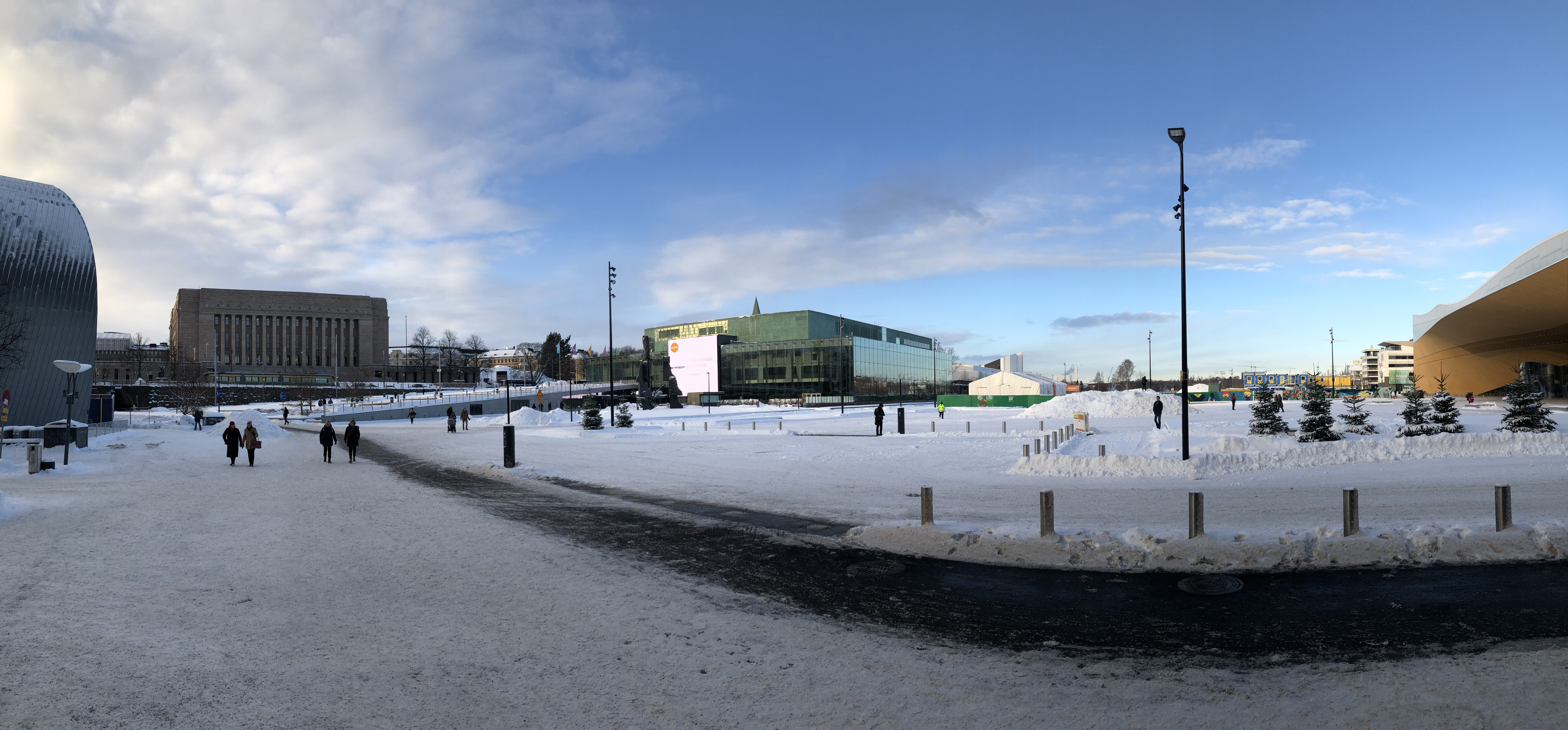 Kansalaistori filmed in January 2019. From left to right Kiamsa Museum, Parliament House, Helsinki Music Centre and Helsinki Central Library Oodi.